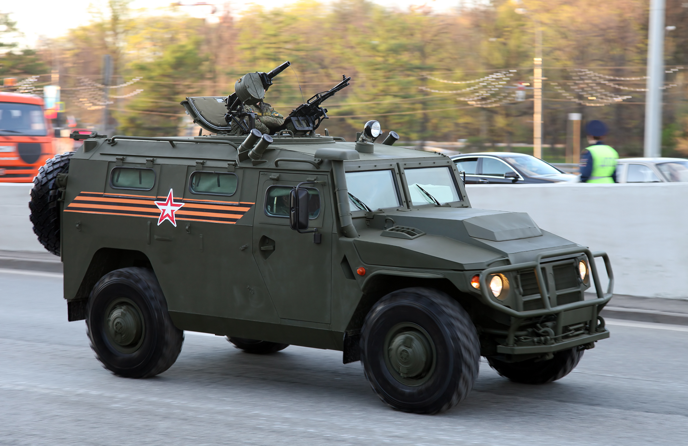 ASN 233115 Tigr-M SPN armored vehicle